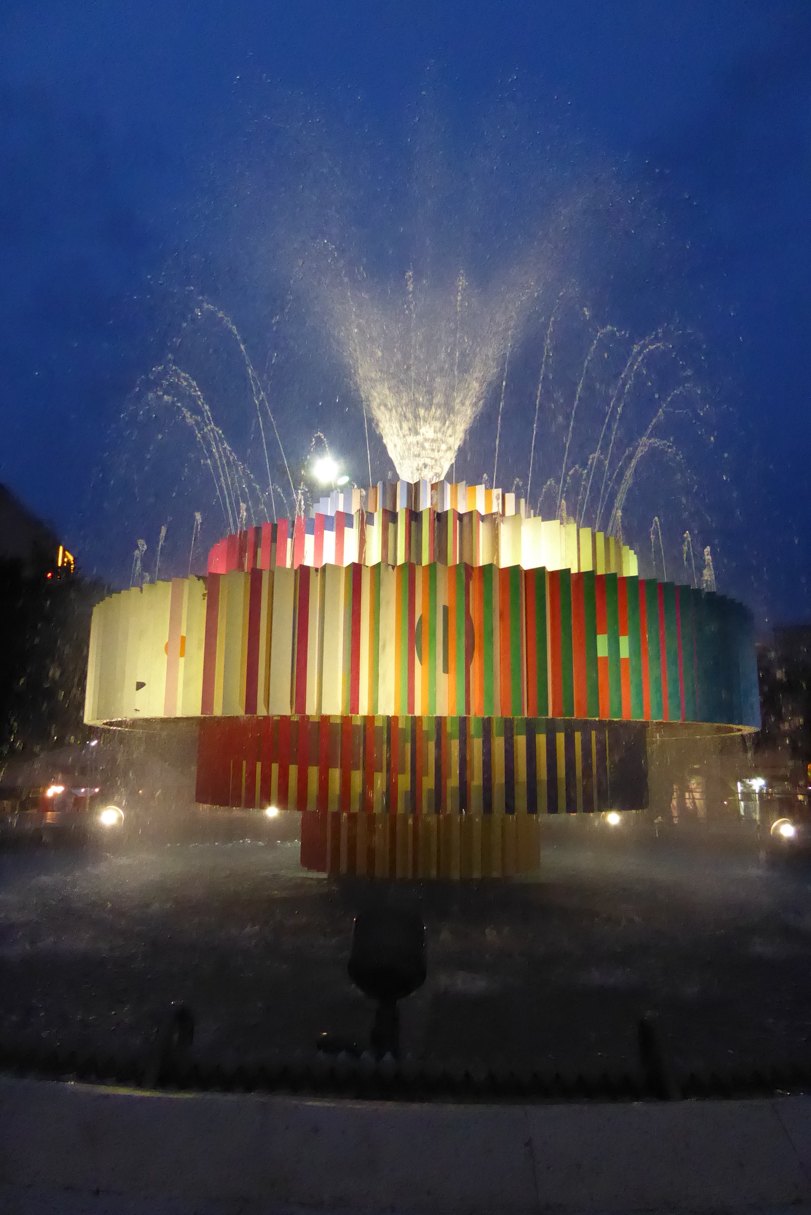 Dizengoff Square